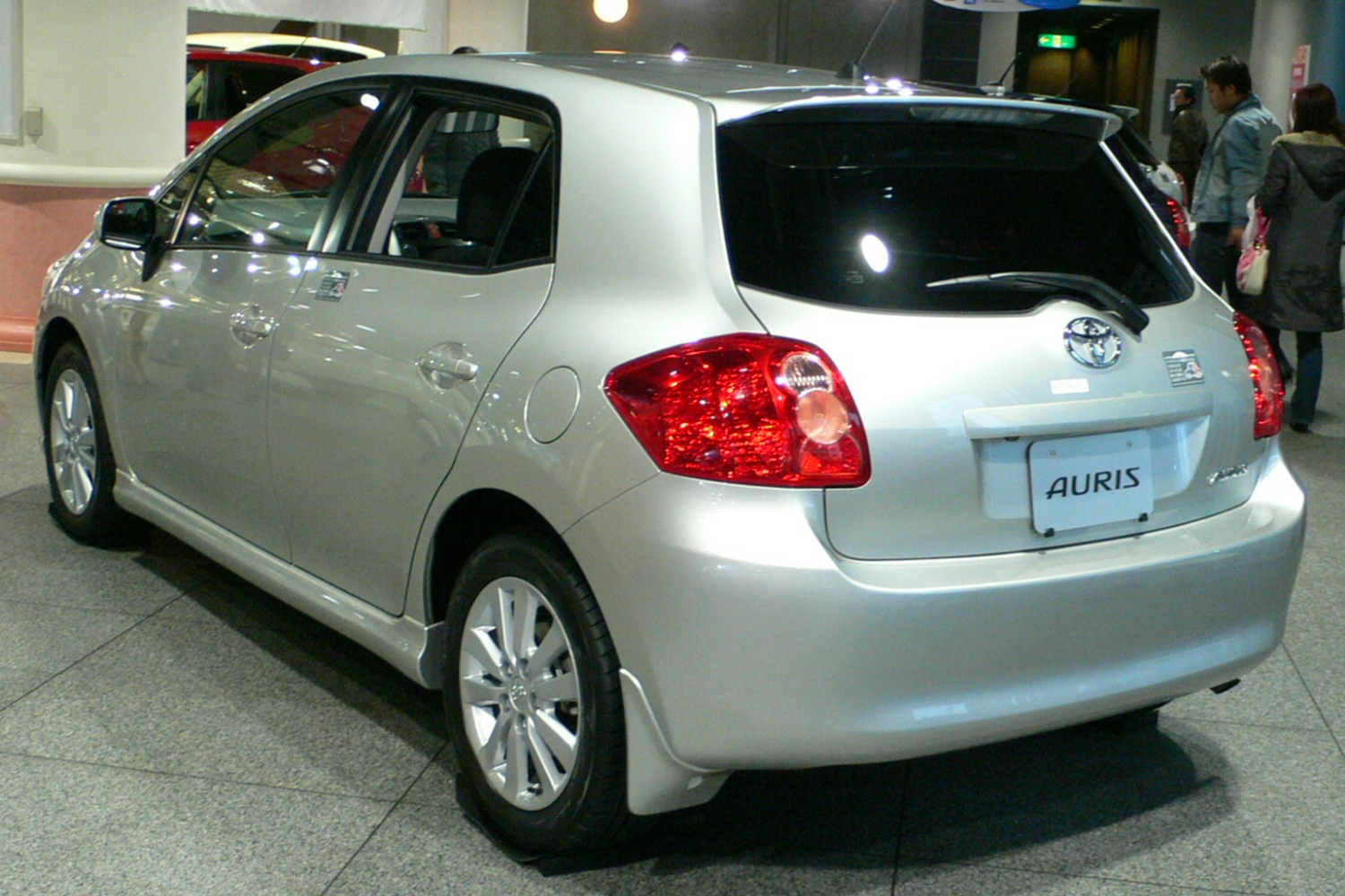 Toyota_Auris(2006) taken in Showroom of Toyota-AMLUX